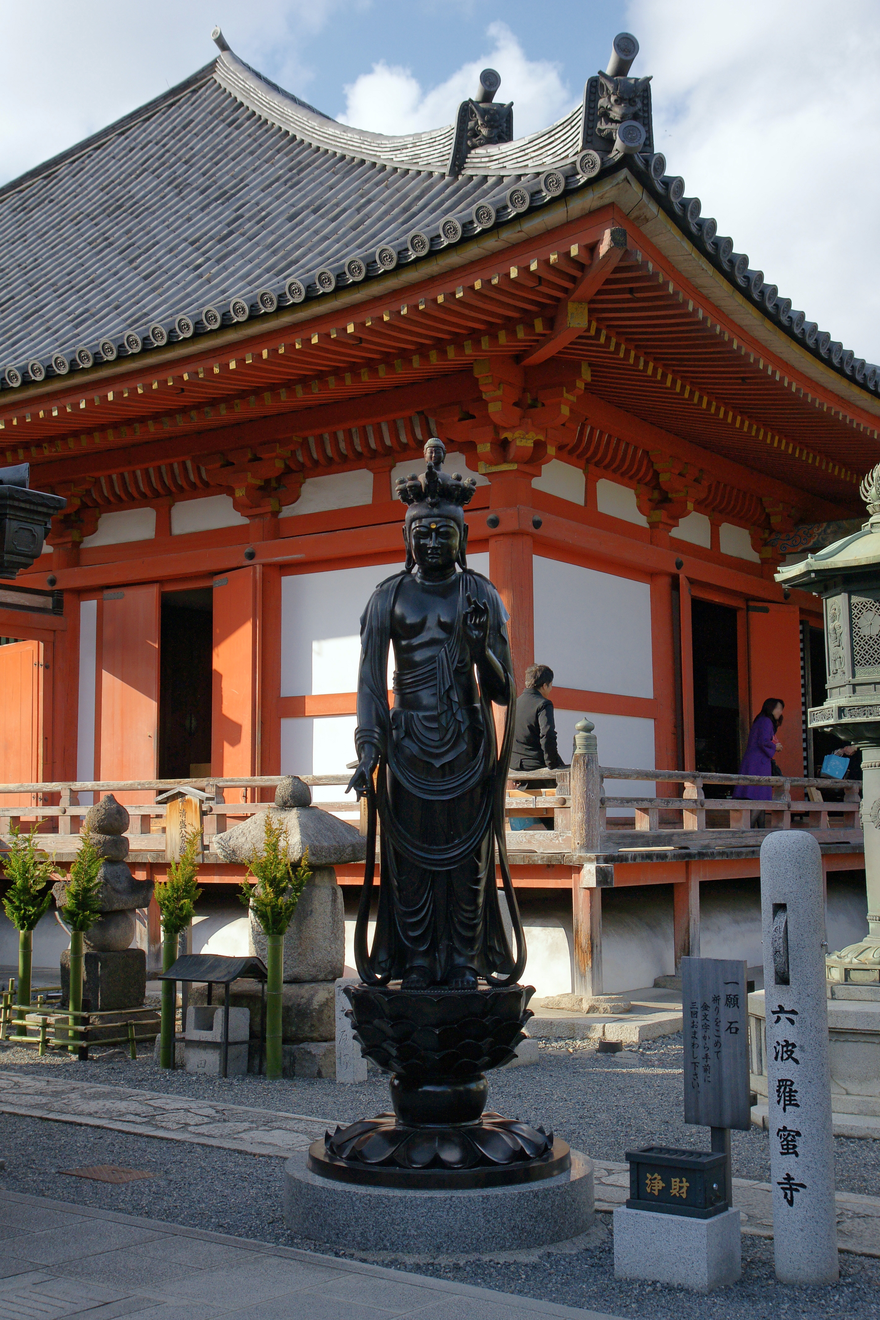 Rokuharamitsuji, a buddhist temple in Kyoto, Kyoto prefecture, Japan